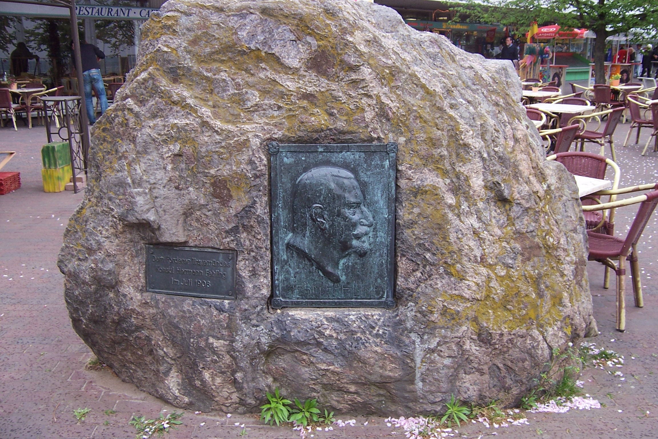 Memorial stone for Hermann Wilhelm Fehling in Travemünde; Bild zeigt den Stein noch vor dem zwischenzeitlich abgebrochenen AquaTop